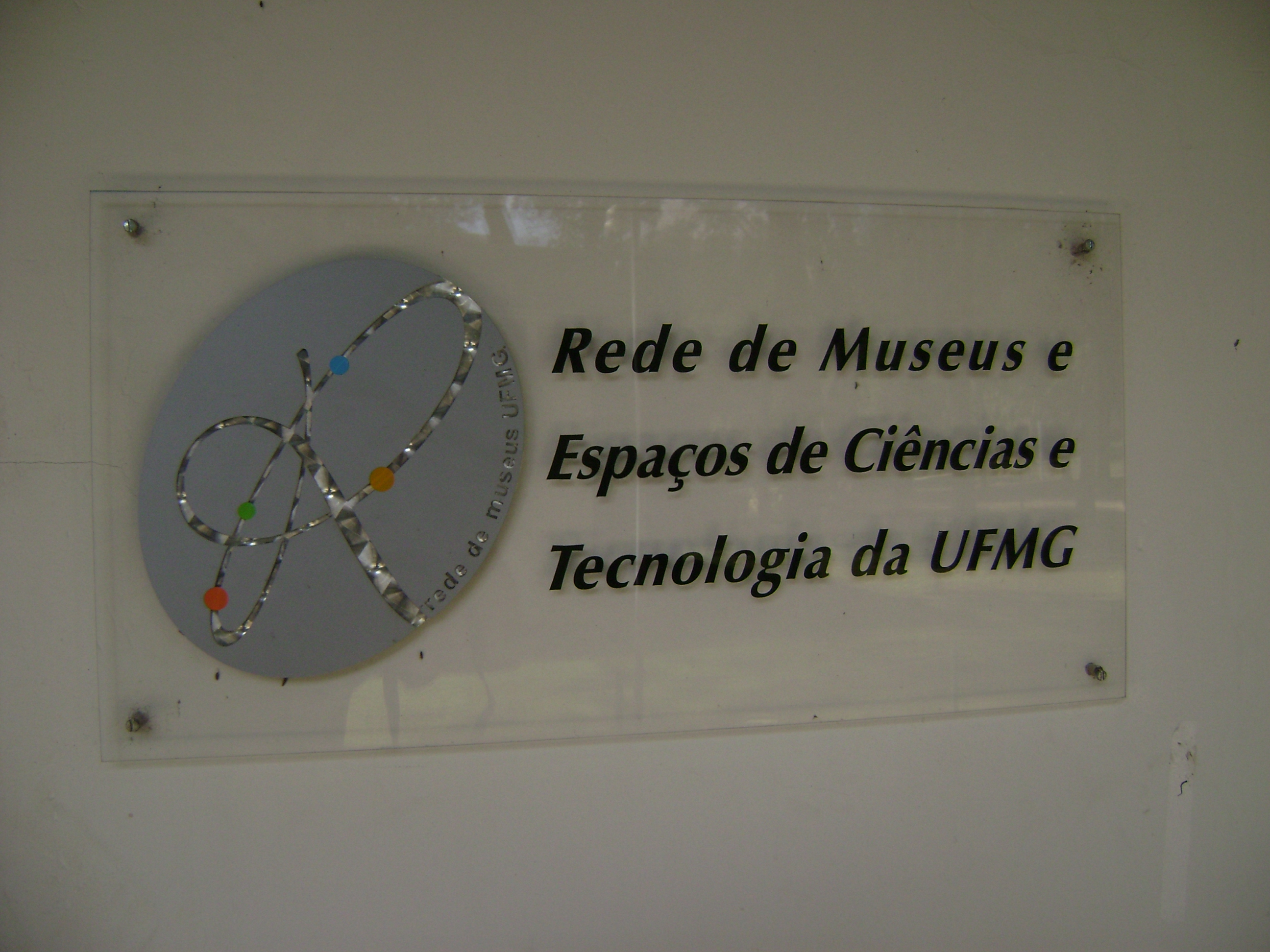 Sign of "Rede de Museus e Espaços de Ciência e Tecnologia da UFMG".